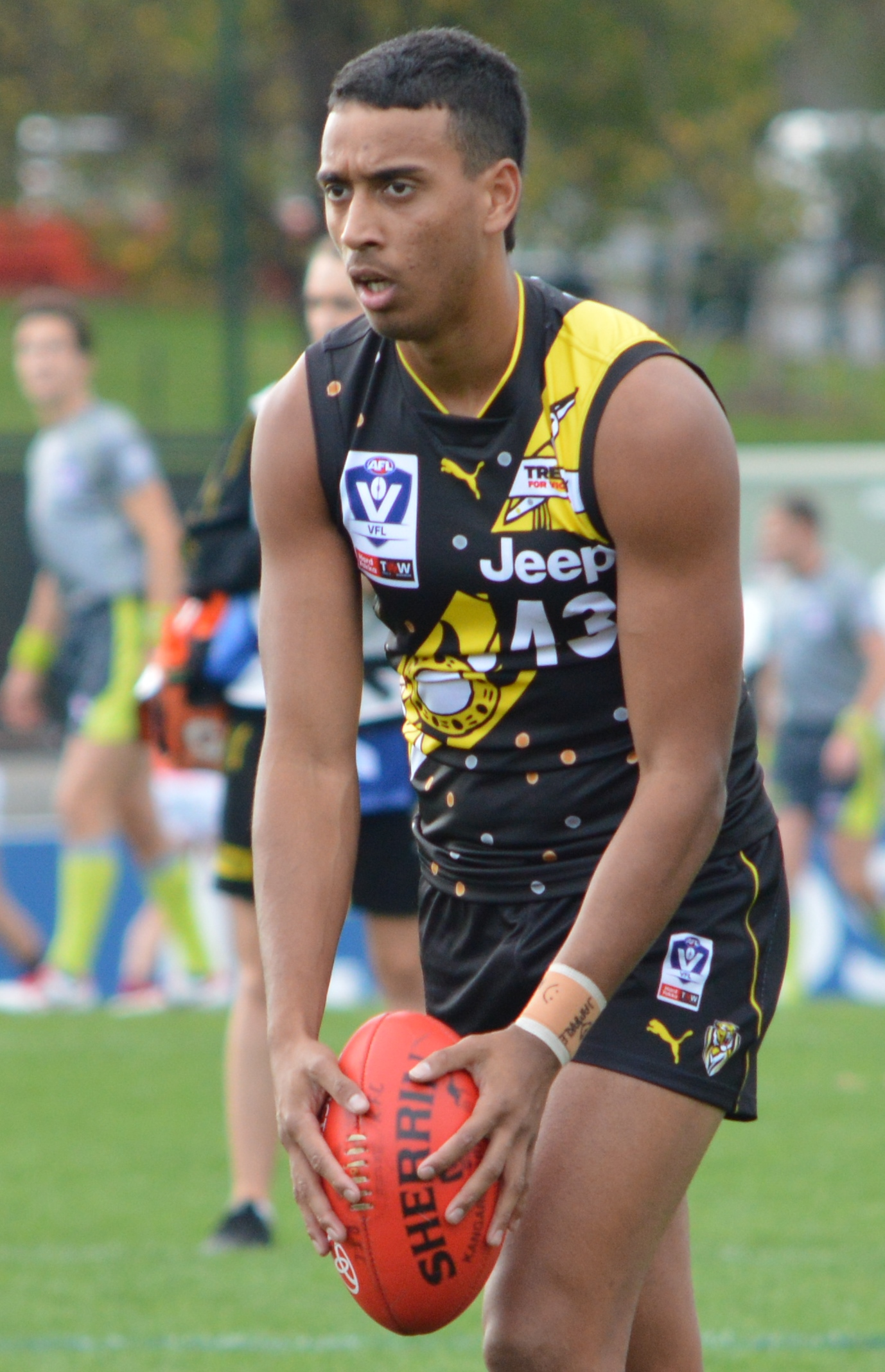 Derek Egglmolesse-Smith with Richmond in the round 8 VFL match against Essendon at Punt Road Oval on 25 May 2019.